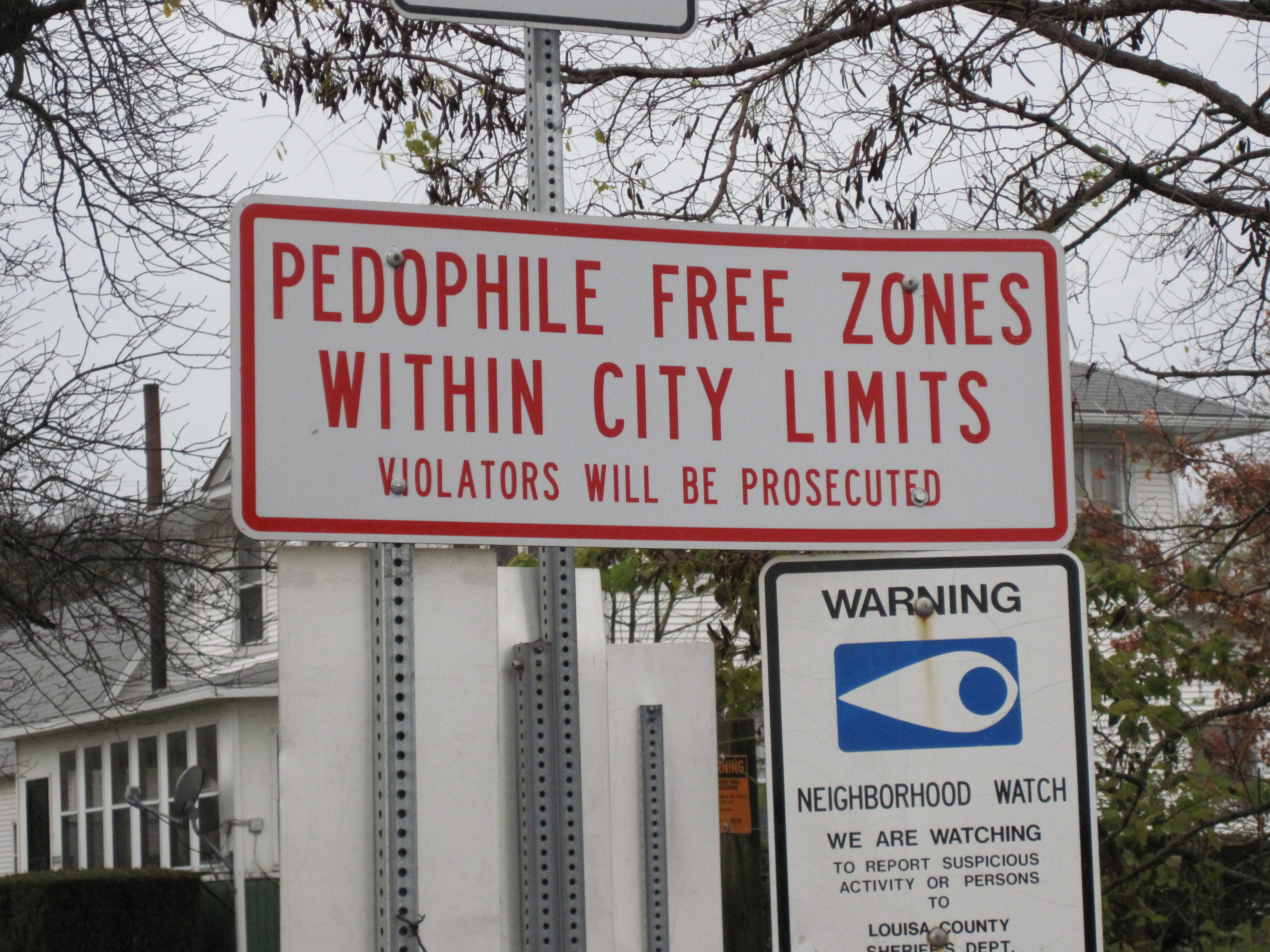 Sign, Wapello. This was put up in reaction to Megan's Law.